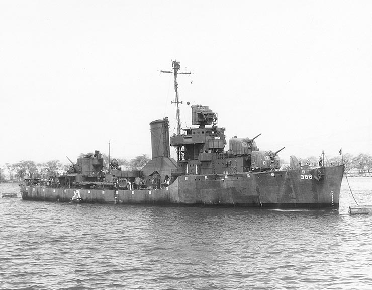 The Bagley-class destroyer USS Bagley (DD-386) tied up at Pearl Harbor, Hawaii, late in 1945. Note markings on her side, giving the location of hull frames. Removed caption read: Photo # 19-N-115254 USS Bagley at Pearl harbor, late in 1945